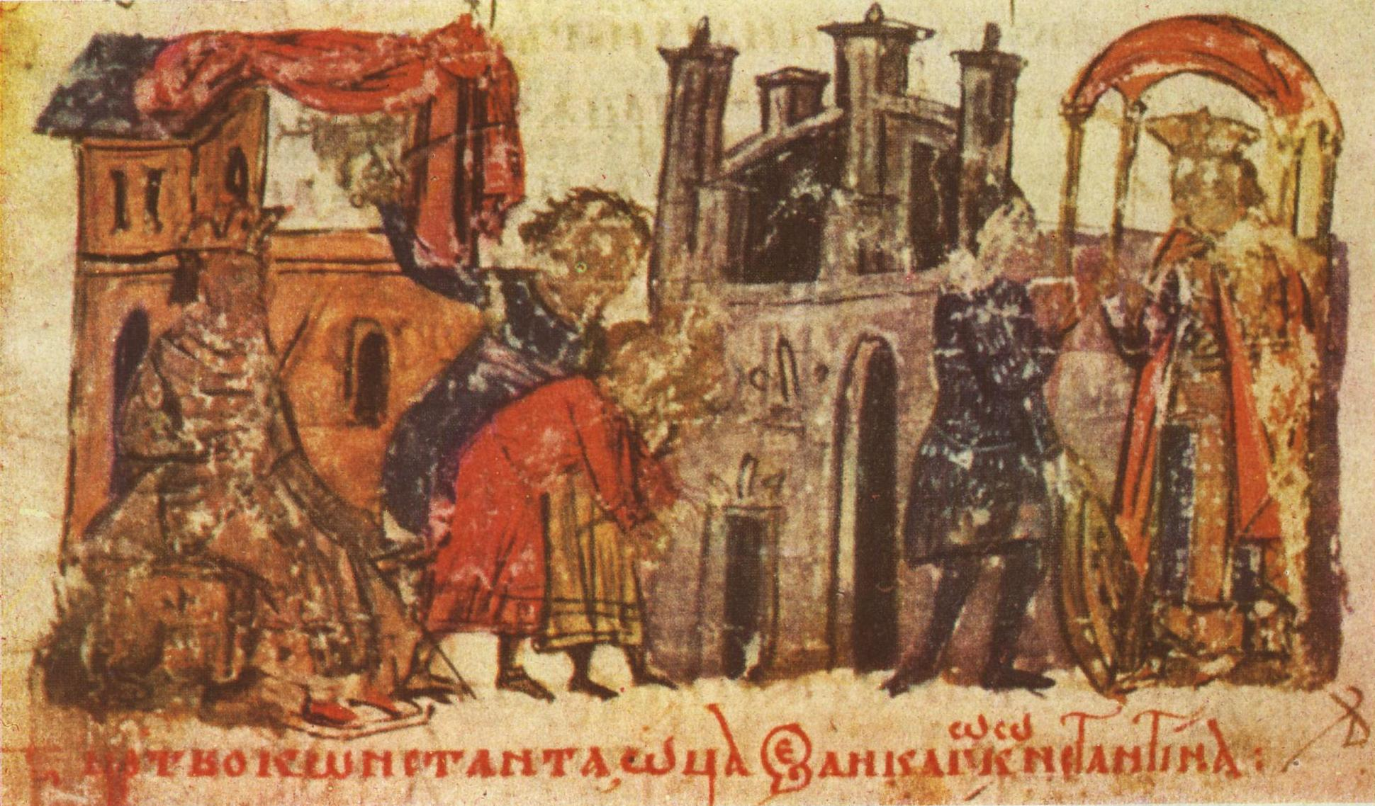 Miniature 29 from the Constantine Manasses Chronicle, 14 century: Roman emperors Diocletian and Maximian